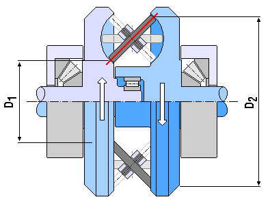 Gear box (variator)